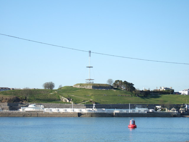 Mount Wise from Cremyll Taken across the entrance to the Hamoaze.